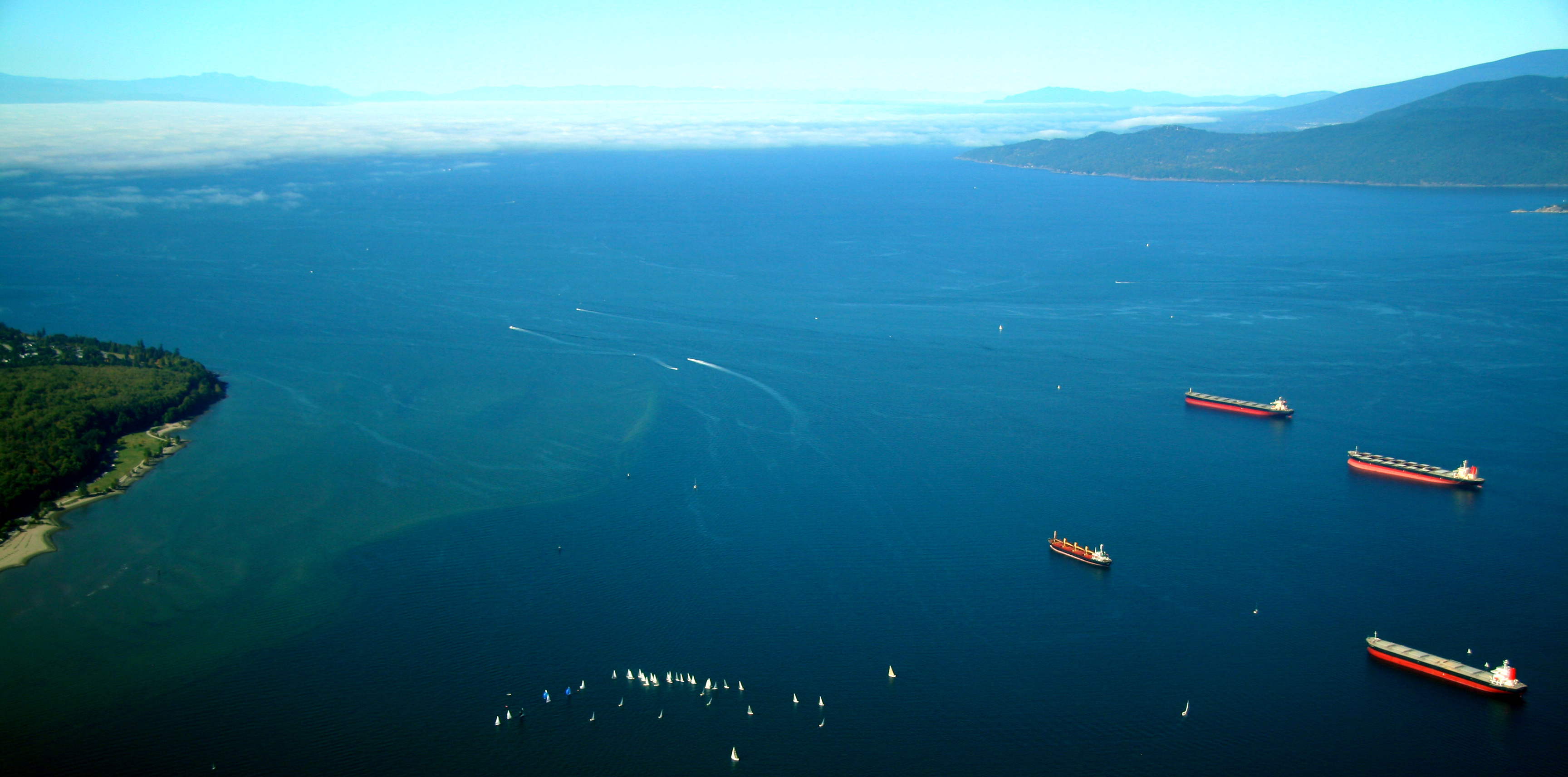 English Bay, Vancouver